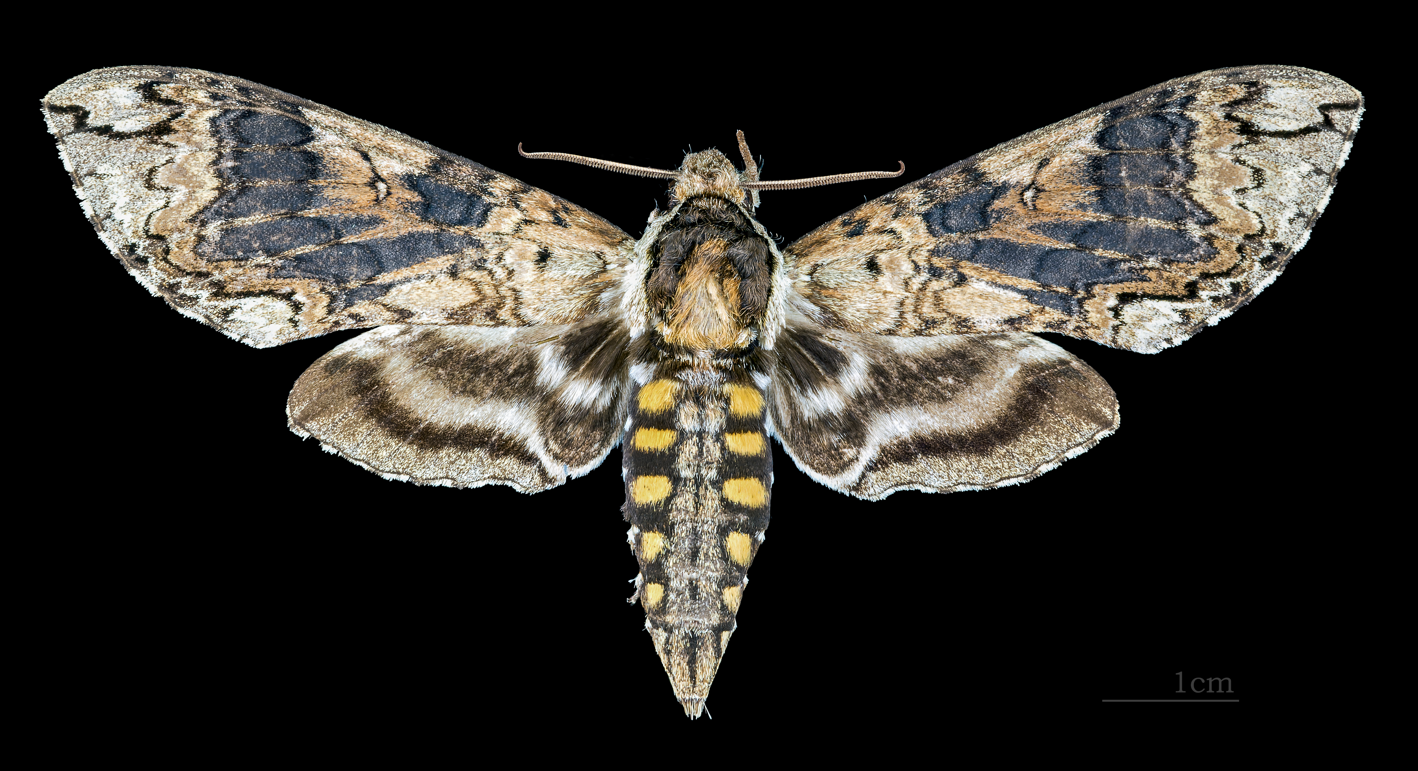 Manduca wellingi - Dorsal side